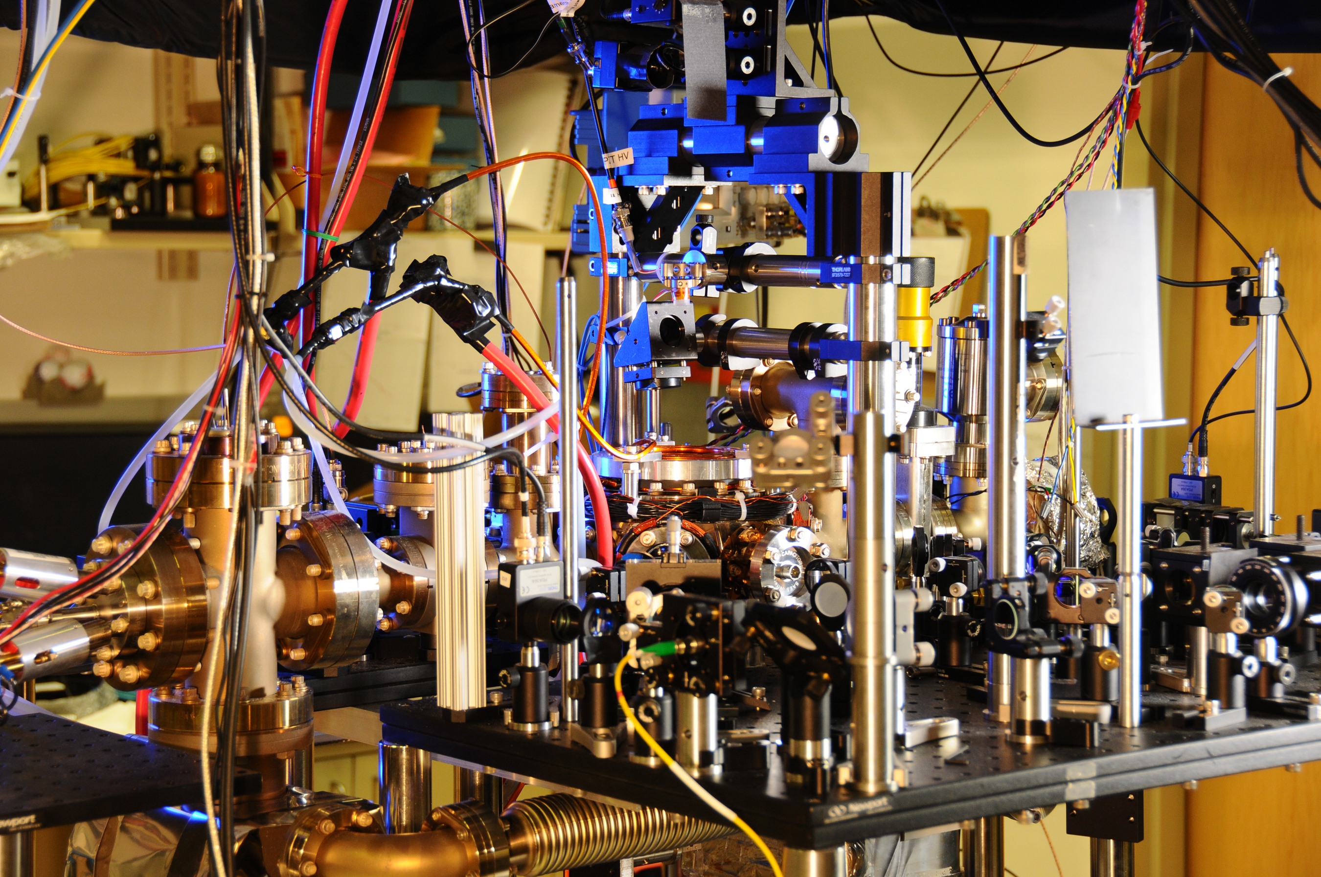 NIST's ultra-stable ytterbium lattice atomic clock. Ytterbium atoms are generated in an oven (large metal cylinder on the left) and sent to a vacuum chamber in the center of the photo to be manipulated and probed by lasers. Laser light is transported to the clock by five fibers (such as the yellow fiber in the lower center of the photo). Credit: Burrus/NIST Disclaimer: Any mention of commercial products within NIST web pages is for information only; it does not imply recommendation or endorsement by NIST. Use of NIST Information: These World Wide Web pages are provided as a public service by the National Institute of Standards and Technology (NIST). With the exception of material marked as copyrighted, information presented on these pages is considered public information and may be distributed or copied. Use of appropriate byline/photo/image credits is requested.